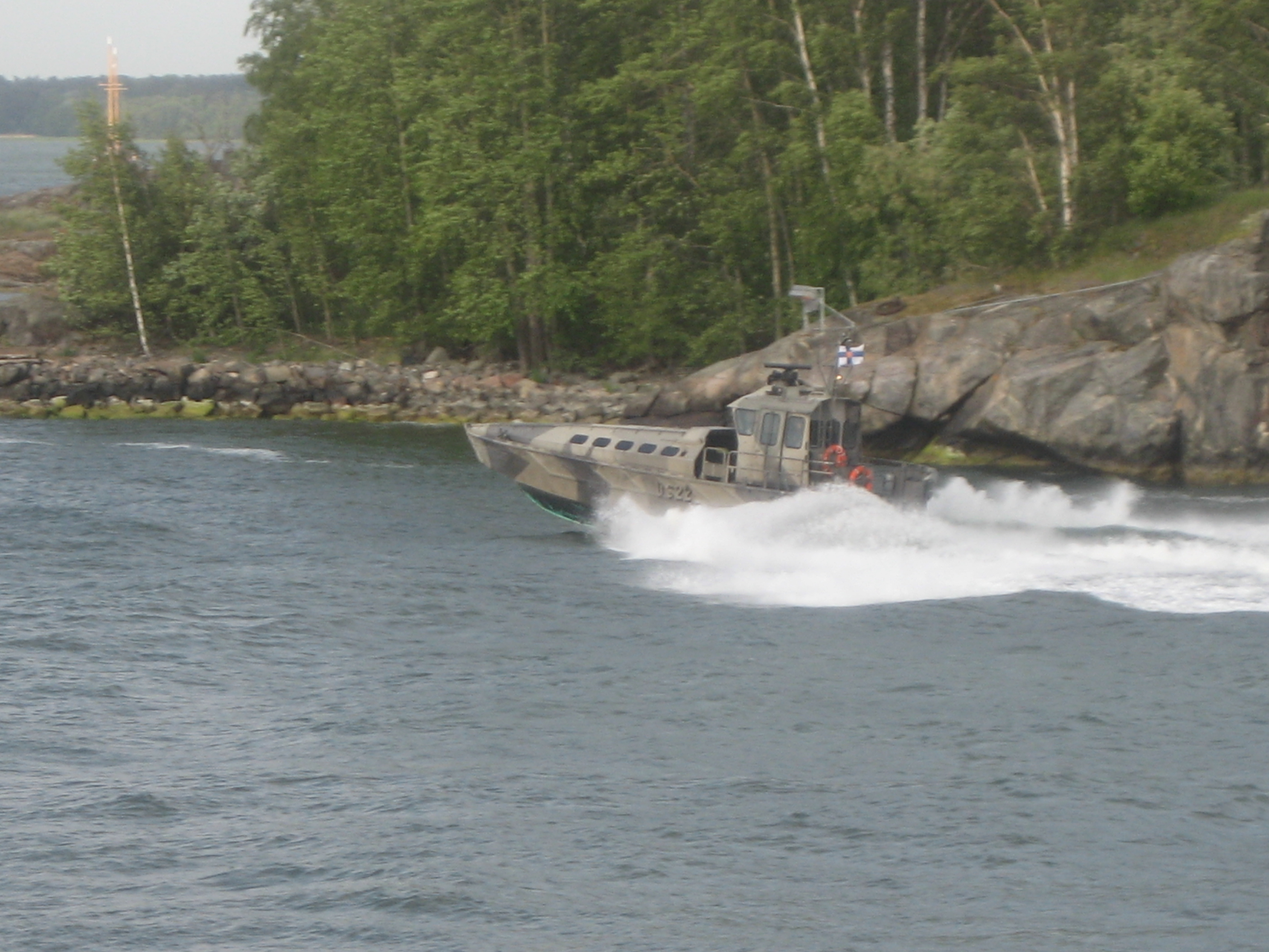 Finnish Jurmo-class landing craft advancing at Kustaanmiekka strait in Helsinki.